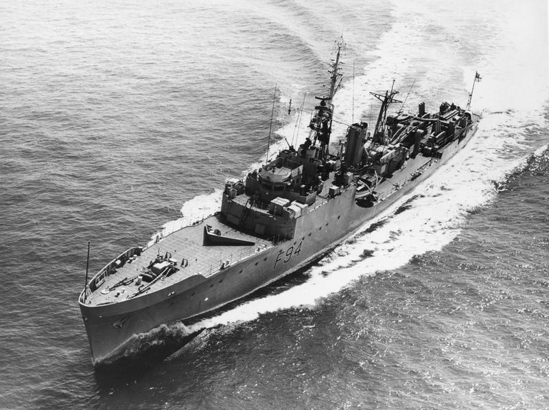 Type 15 Frigate HMS Palliser, 1956 (IWM HU 129942)